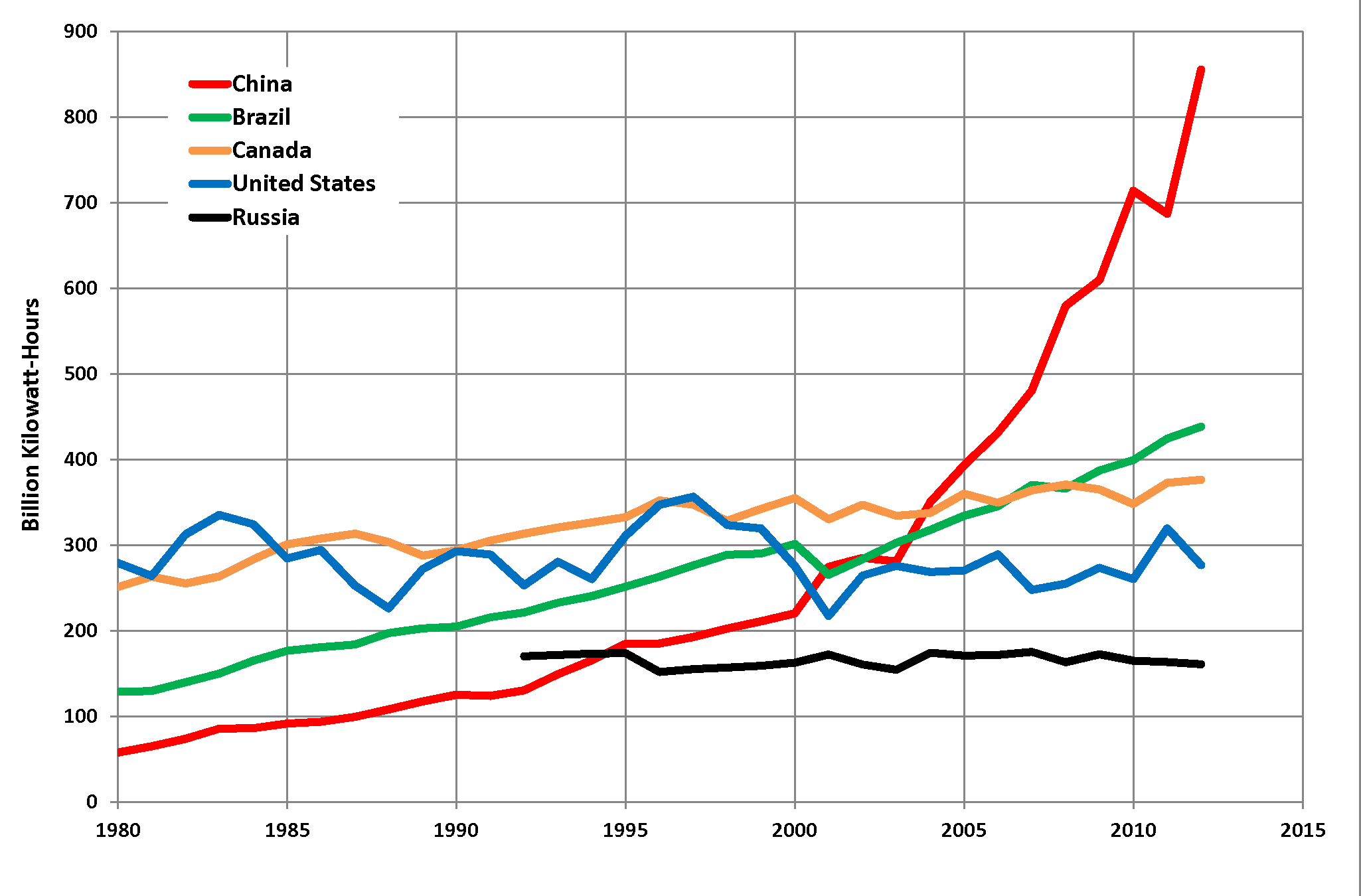 Trends in the top five hydroelectricity-producing countries